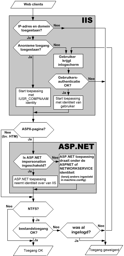 Authenticatie in